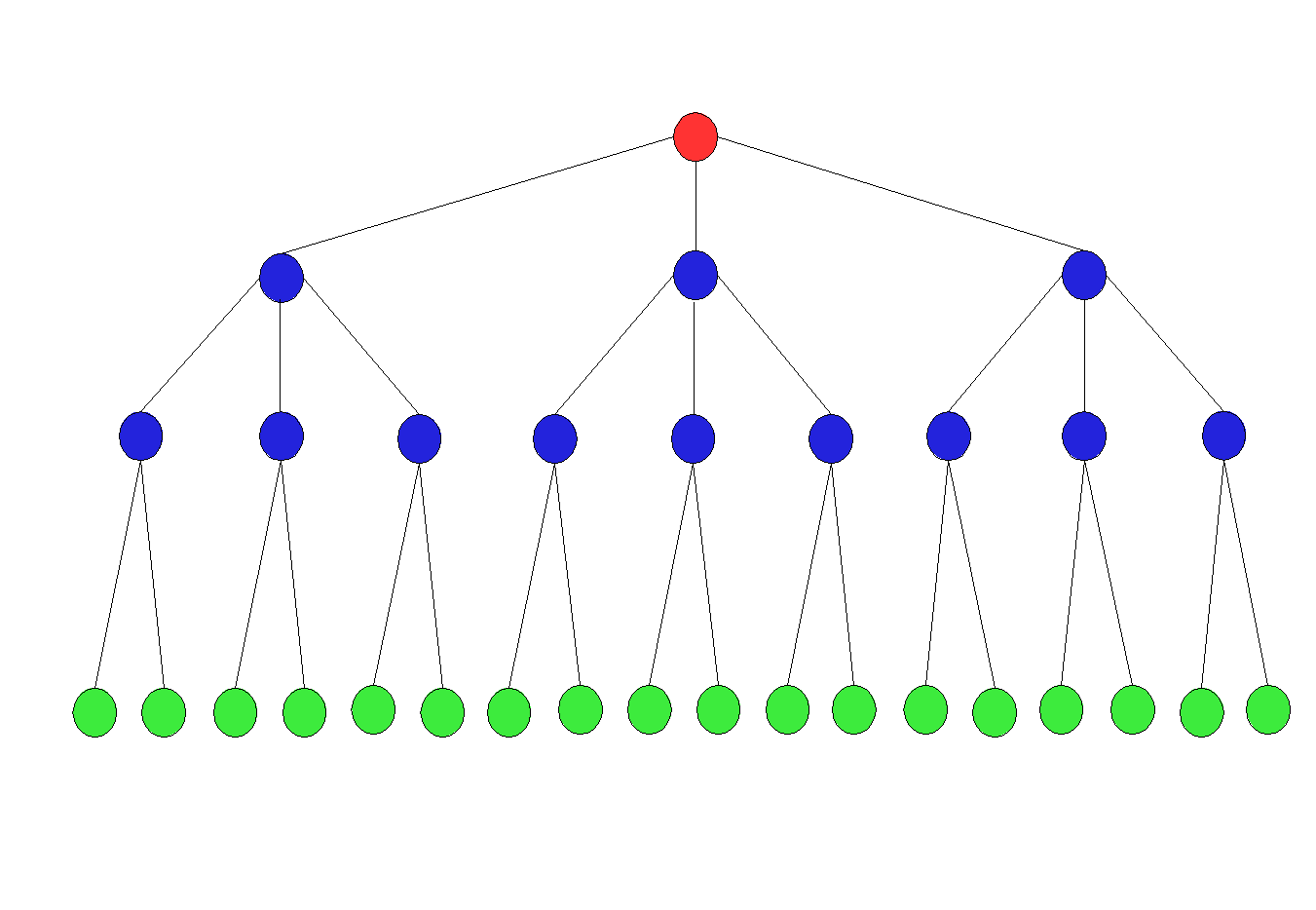 Balanced tree with 4 layers.